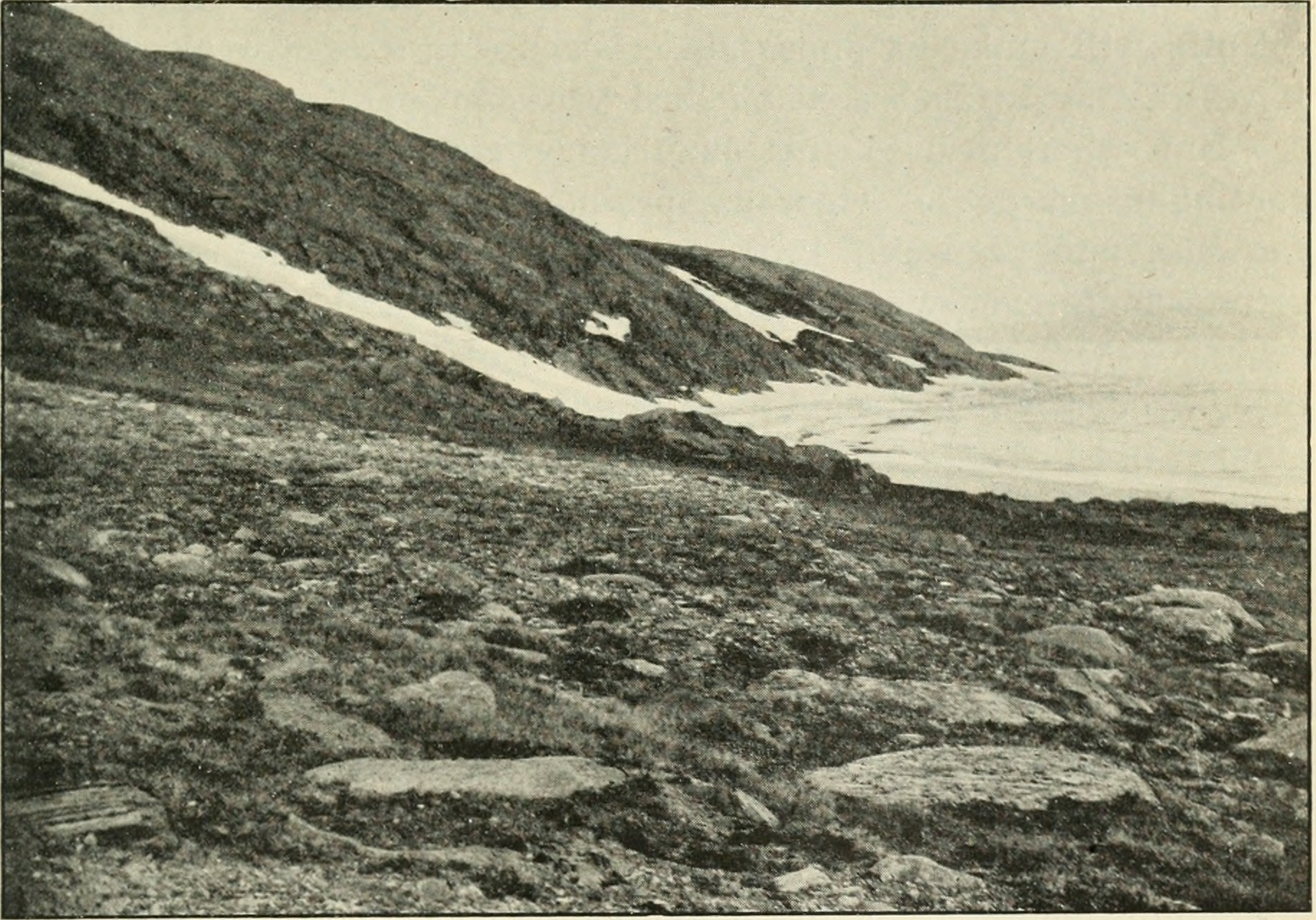 Slope with Dryas near Snenæs. In the foreground luxuriant mats of Dryas (30. G. 1908). Snenæs 76Ø-31 (76°49.2´N 19°21.4´W; Map 4). Peninsula on Winge Kyst in south Germania Land, so named by the 1906–08 Danmark Expedition because it was usually snow-covered. Title: Arbejder fra den Botaniske have i København Year: 1902 (1900s) Authors: Københavns universitet. Botanisk have Subjects: Plants; Plants; Plants; Plants Publisher: København, Levin & Munksgaard (etc. ) Text Appearing Before Image: Some Notes concerning the Vegetation of Germania Land 391 Slightly sloping or horizontal gravel-deposits, which in the first part of summer (June) are continually irrigated hy melting snow, soon form a flourishing bog oŒriophorum polystachyum from which Arctagrostis latifolia is rarely wanting. The rocky flat proper is formed by the gravel and clay layers to which must suffice the moisture which either the snow which covers the spot or the adjacent drifts of snow can provide from the time when the snow begins to melt in spring. These constitute by far the largest part of the area (with loose material), and it is the only formation which exhibits some alternation in the composition Text Appearing After Image: Fig. 8. Slope with Dnjas near Snenæs. In the foregronnd luxnriant mats of Drijas (30. G. 1908). of its vegetation. As a formation it also includes the scattered sparing vegetation of the primitive rocks. Nature in its entirety has a stingy hand in these regions; poverty peeps through everywhere, and any extent of sociability cannot be afforded. Not even the most robust proletarian dares to associate in large quantities for fear of mutual deprivation of sustenance. If ultimately some associations are formed, e. g. the Carea;-bogs along the small streams, the societies are always verj' exclusive, though not in the sense that the members exact too much of life : a drink of water during summer and a covering of snow during winter is all that they demand.